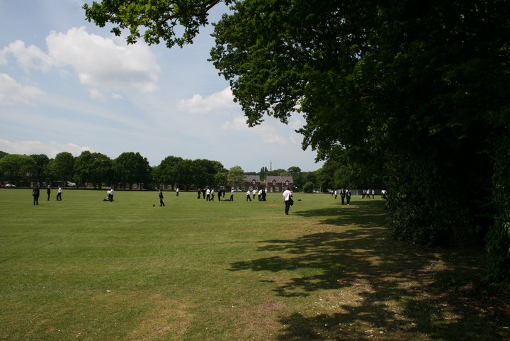 A typical summer lunch break on the playing fields of the Wirral Grammar School for Boys in Bebington on the Wirral Peninsula in England, UK. Among other sports, the fields are used for athletics, cricket and rugby.